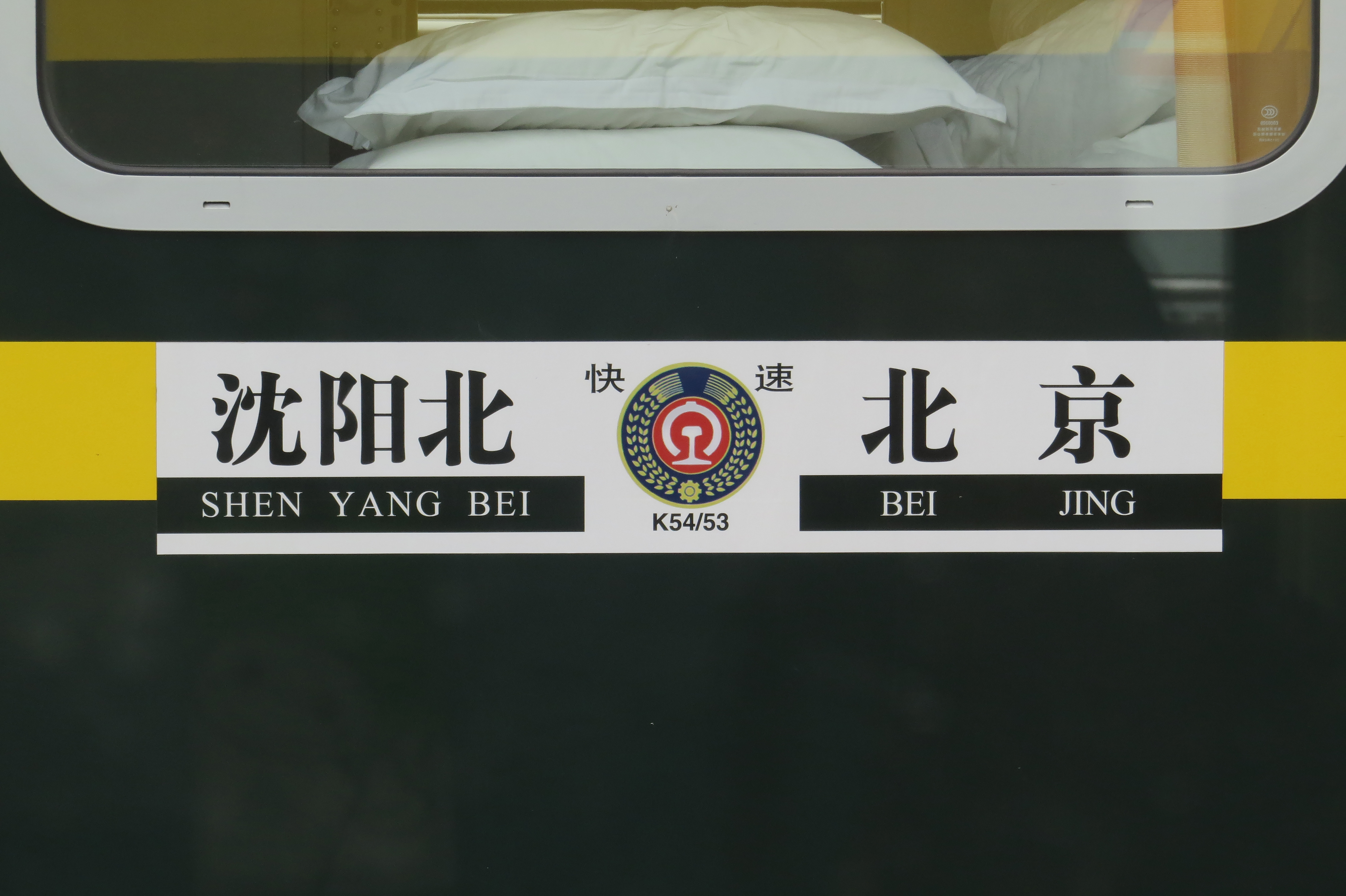 Mobile hotel between Beijing and Shenyang, seen at Beijing East Railway Station.